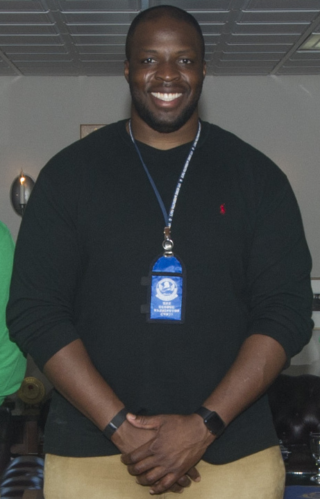 160311-N-MY901-058 ATLANTIC OCEAN (March 11, 2016) —From left to right, New York Jets offensive lineman Brent Qvale, Command Master Chief James Tocorzic, New York Jets offensive lineman Ben Ijalana, Commanding Officer Capt. Timothy C. Kuehhas and retired NFL offensive guard Brenden Stai pose for photo in the commanding officer's in-port cabin aboard the aircraft carrier USS George Washington (CVN 73). Washington is homeported in Norfolk after serving seven years in Yokosuka, Japan, as the U.S. Navy’s only forward-deployed aircraft carrier. (U.S. Navy photo by Mass Communication Specialist Seaman Apprentice Krystofer N. Belknap/Released)